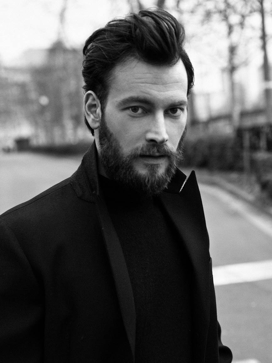 Ernesto D'Argenio